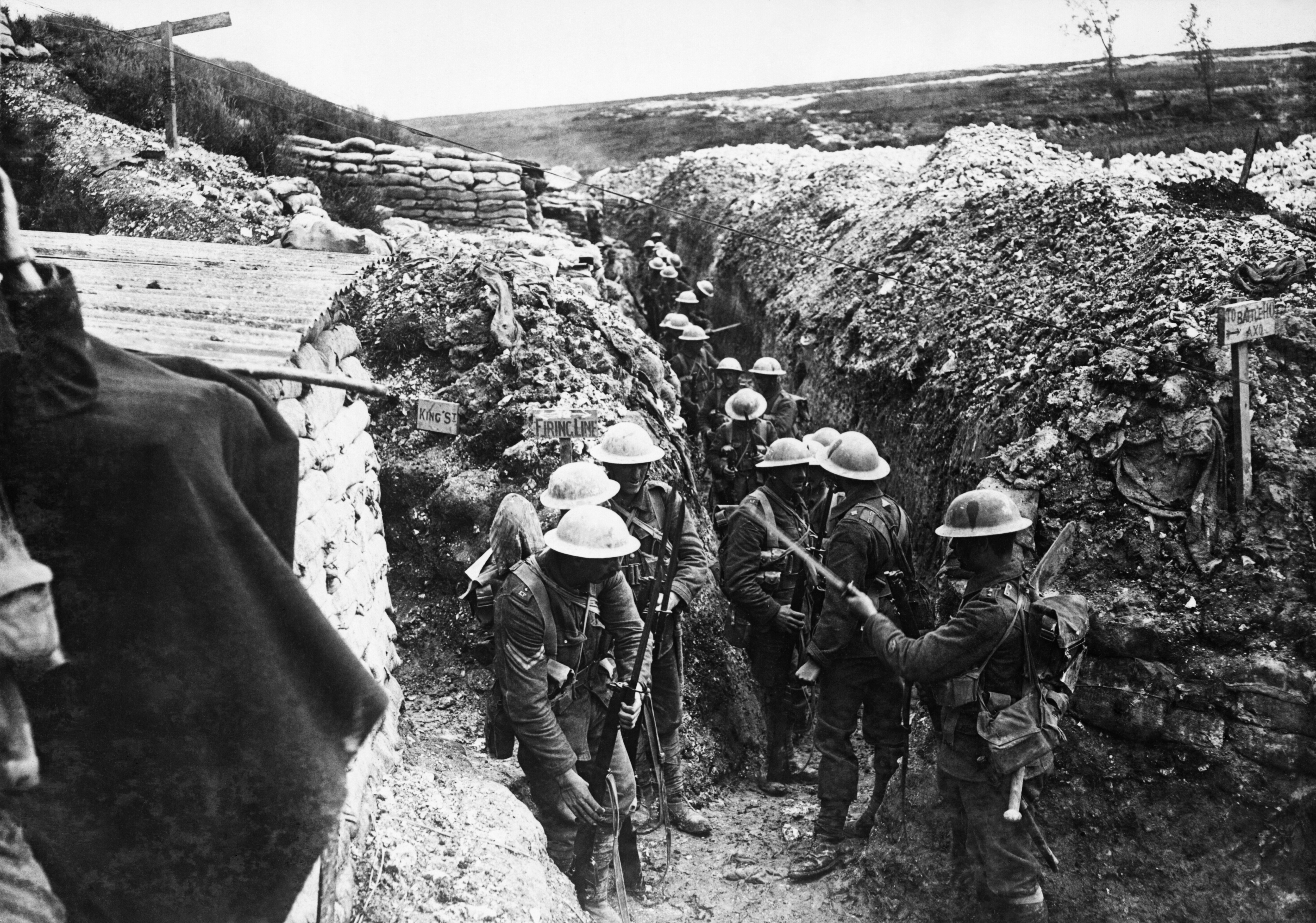 IWM caption : Battle of Albert : Soldiers of the 1st Battalion, The Lancashire Fusiliers fixing bayonets prior to the attack on Beaumont Hamel. They are wearing ‘fighting order’, with the haversack in place of the pack, and with the rolled groundsheet strapped to the belt below the mess-tin which contained rations. The officer in the foreground (right) is wearing other ranks’ uniform to be less conspicuous. Comment : Trench sign indicates 'King St'